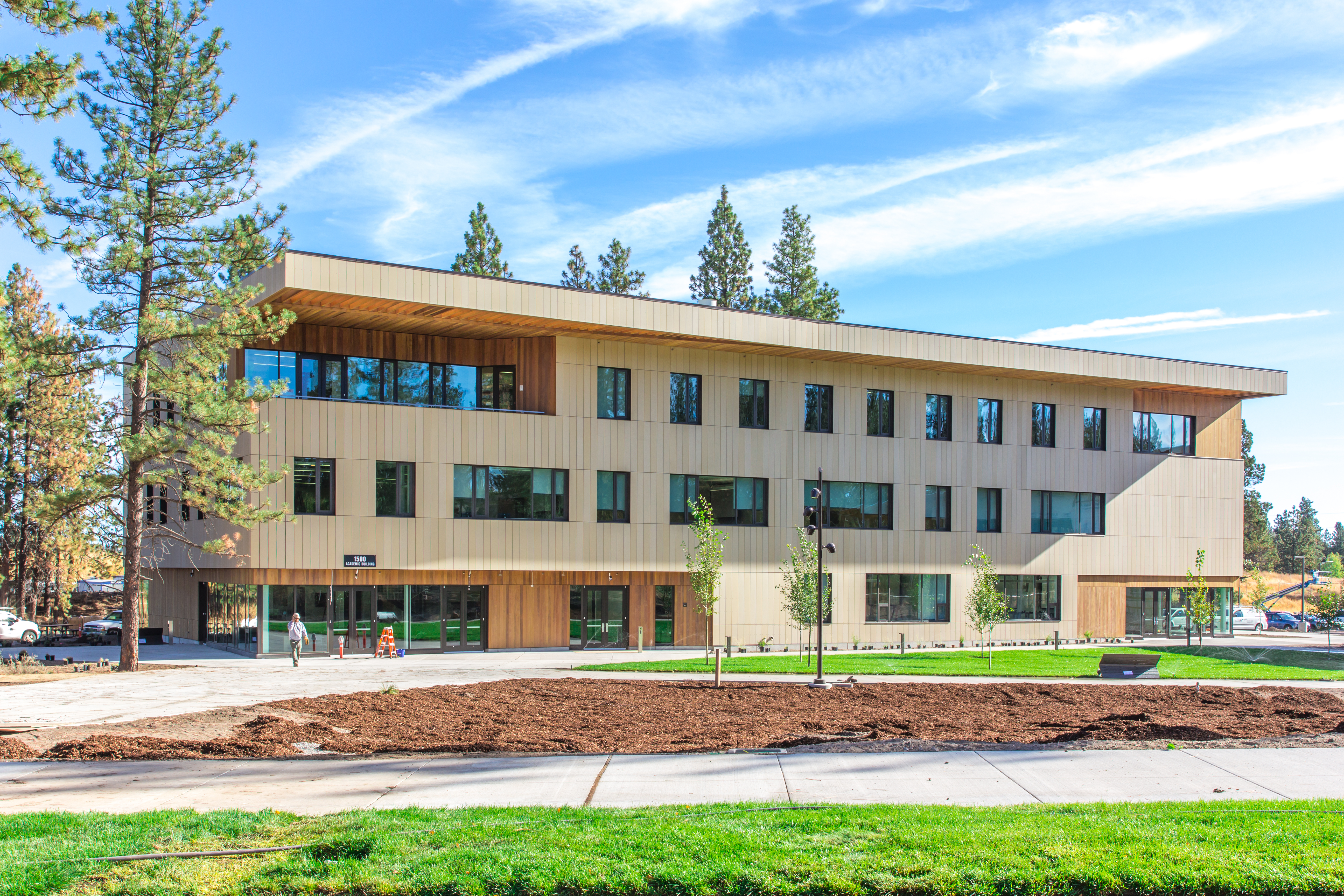 Tykeson Hall on the Oregon State University - Cascades campus. (Photo courtesy of Oregon State University)